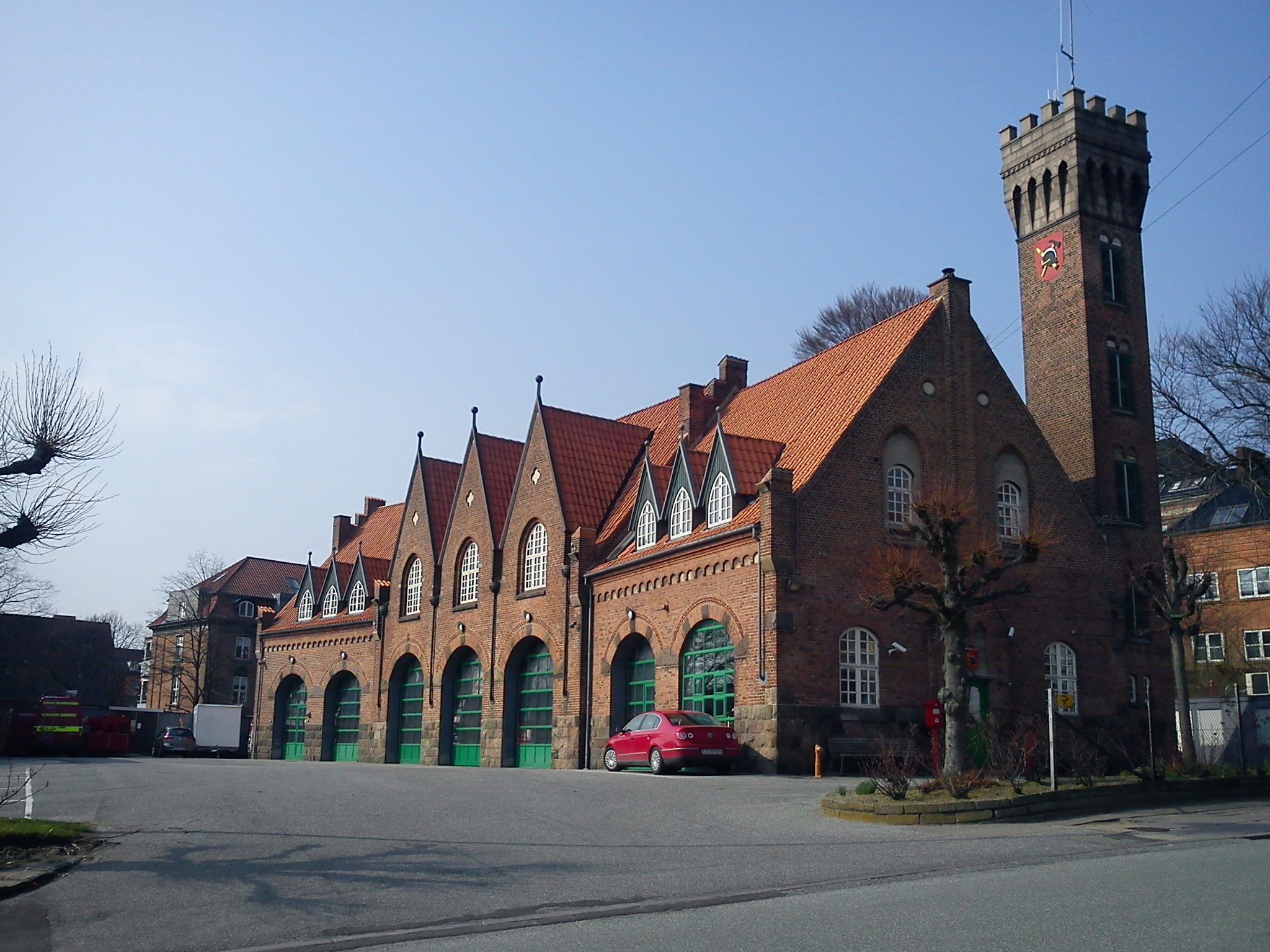 The firestation in Århus at Ny Munkegade.